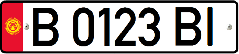 Kyrgyzstan license plates